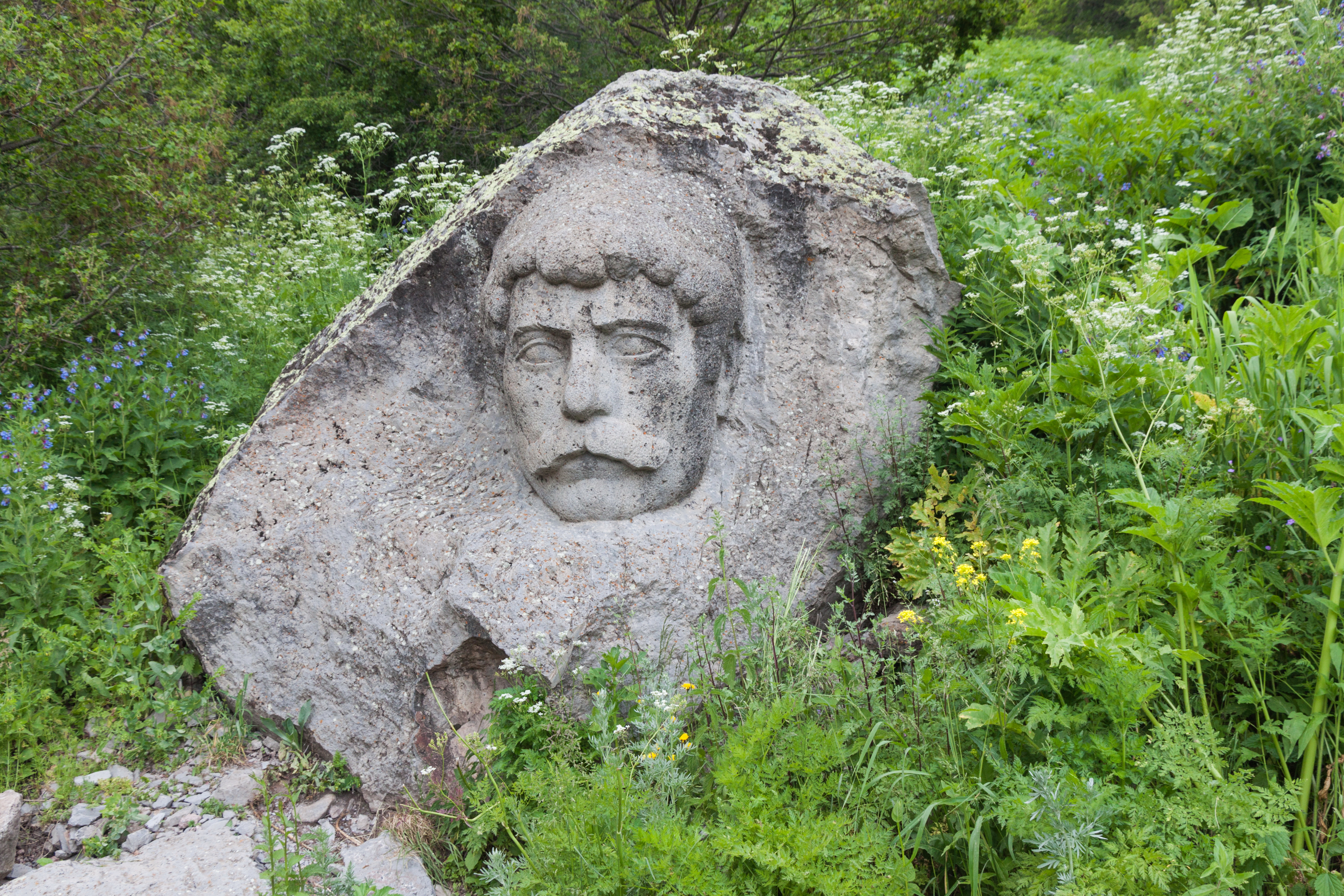 Sculpture in the rock - Smbat Boroyan (Makhluto). Jermuk, Vayots Dzor Province, Armenia.